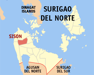 Map of the Surigao del Norte showing the location of Sison